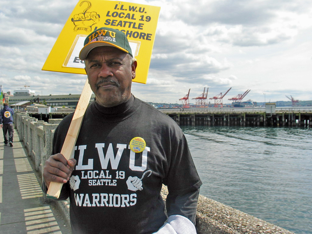 International Longshore and Warehouse Union (ILWU) protested the Iraq war on that day, crane operator and ILWU Local 19 member Al Webster joined the other 10,000 United States Longshore workers who voluntarily gave up a day's pay to join the protest. In the background are hammerhead cranes at the Port of Seattle that would otherwise be loading and unloading cargo on that day.